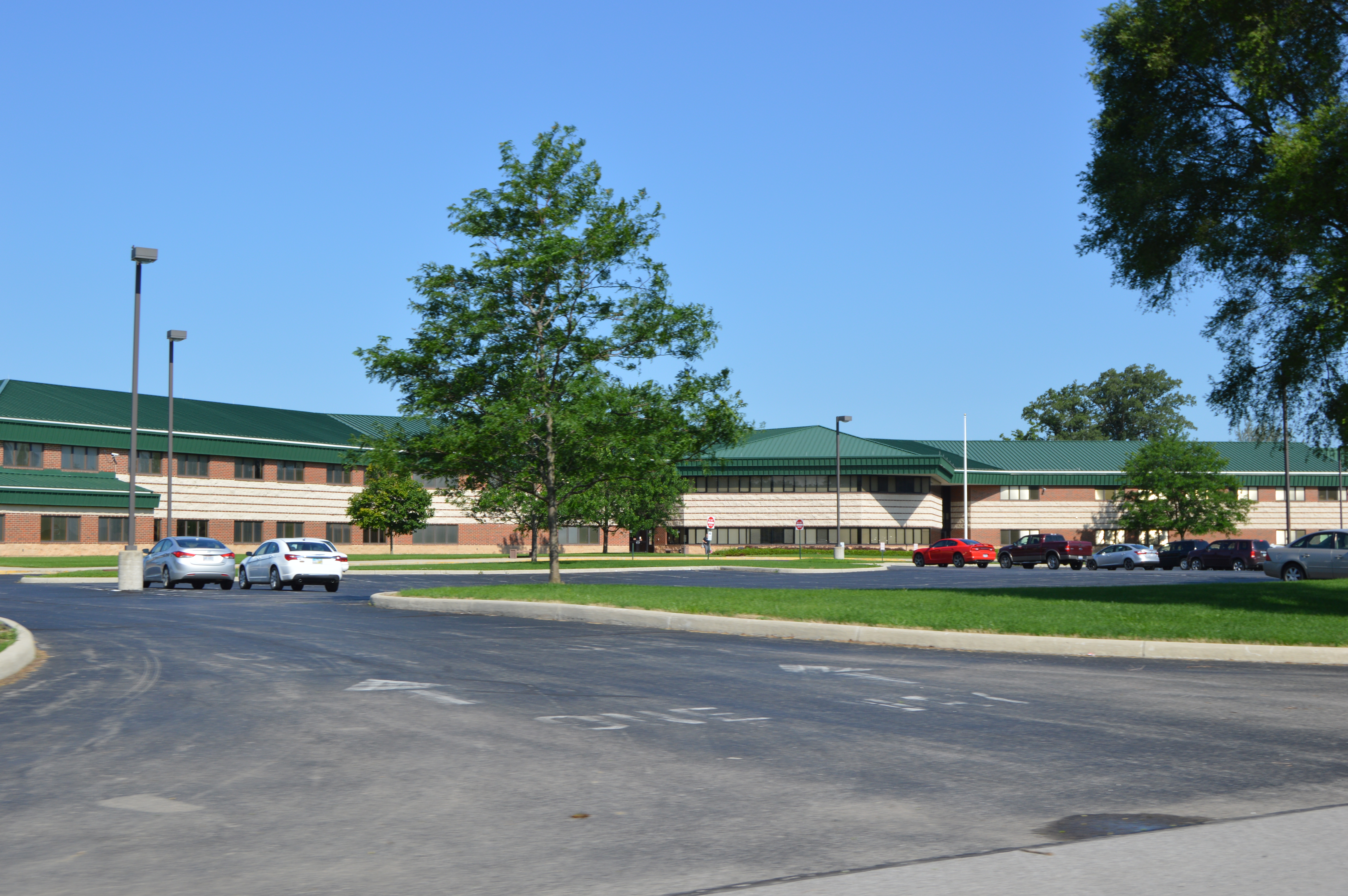 Street view of Upper Scioto Valley High School, located at 510 S. Courtright Street (State Route 195) in McGuffey, Ohio, United States.